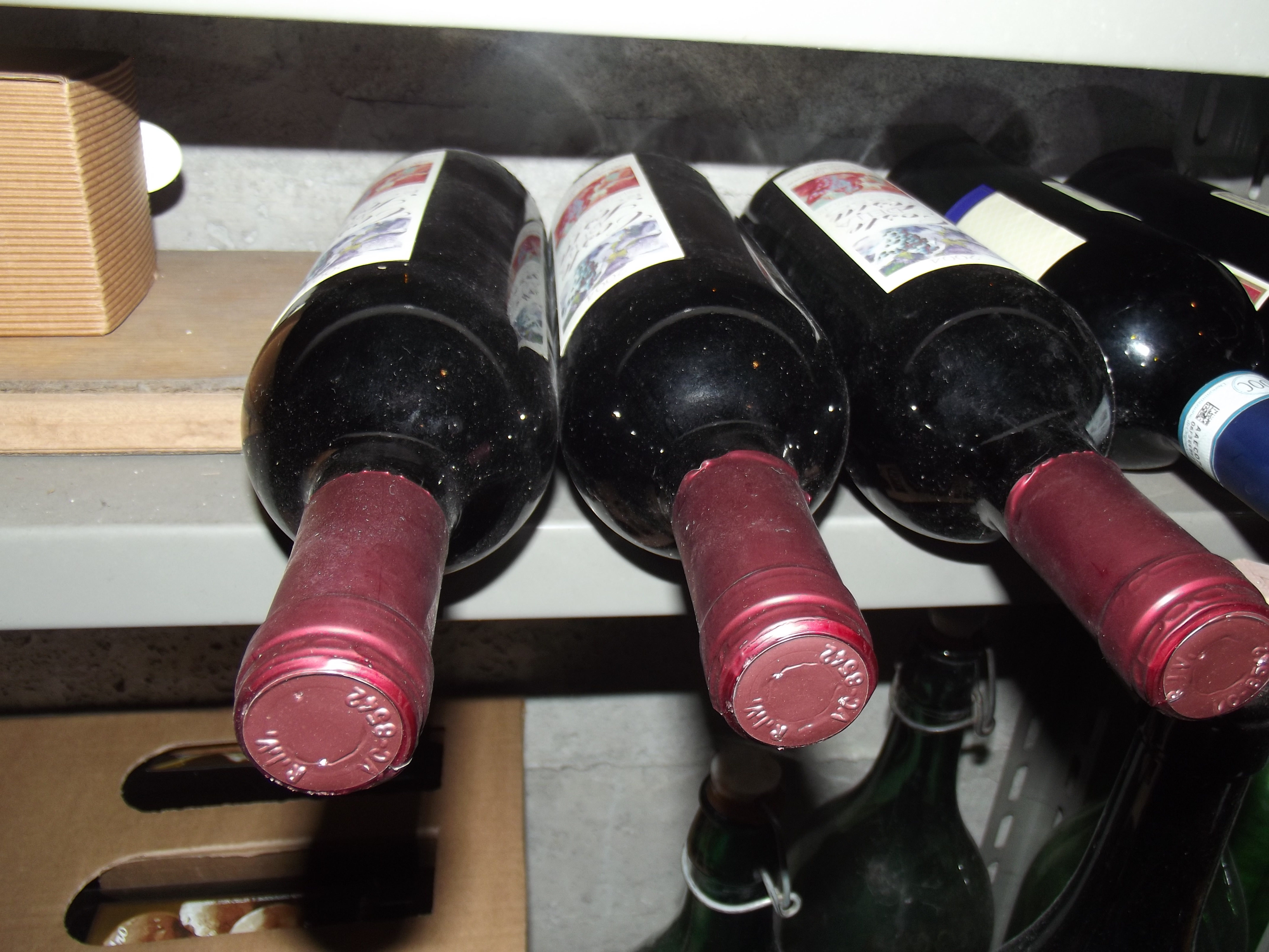 Coste della Sesia rosso DOC 2004